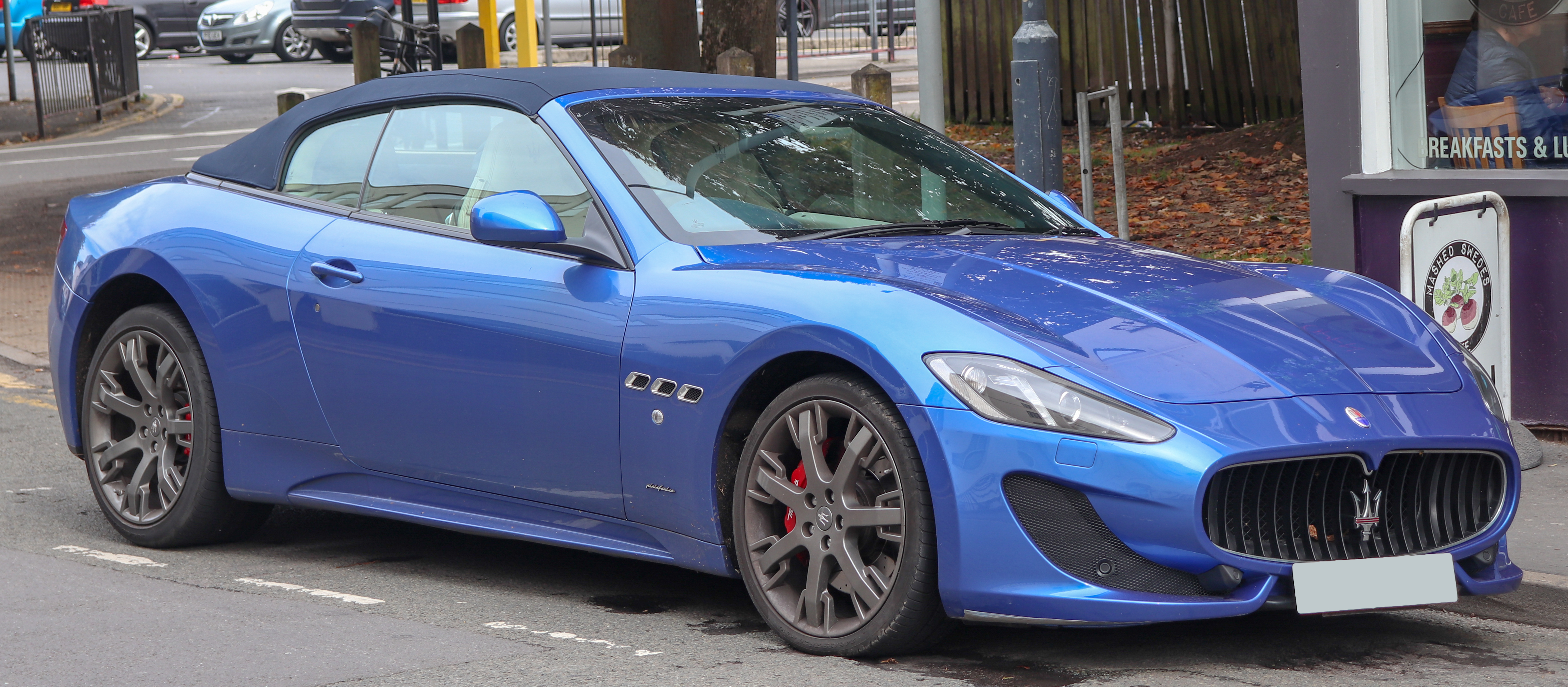 2017 Maserati GranCabrio Automatic 4.7 Front Taken in Leamington Spa